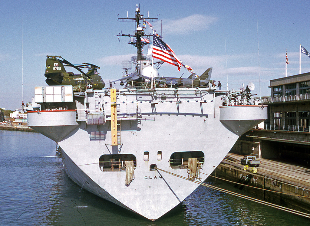 USS Guam (LPH-9) visiting Southampton Docks, UK, in 1974